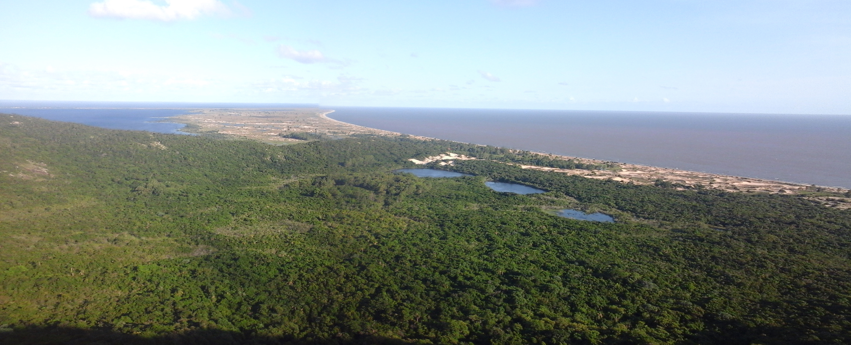 Protected area named Parque Estadual de Itapuã, located in southern Brazil, near Porto Alegre city.